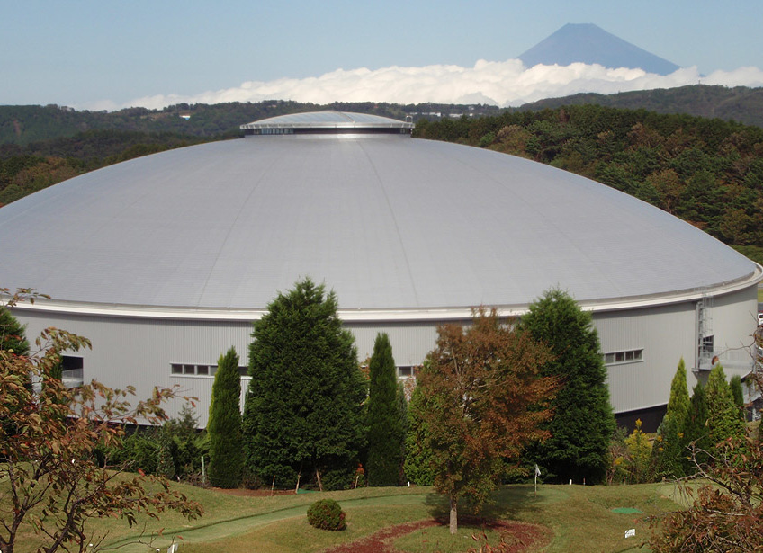 Izu Velodrome is indoor wooden bicycle racing track, locatd in Japan cycle sports center, Izu city, Shizuoka prefecture, Japan.